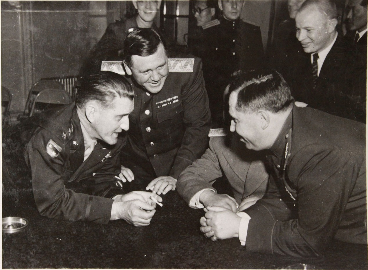 John R. Hodge, N. G. Lebedeff and Stikoff, lean over the conference table